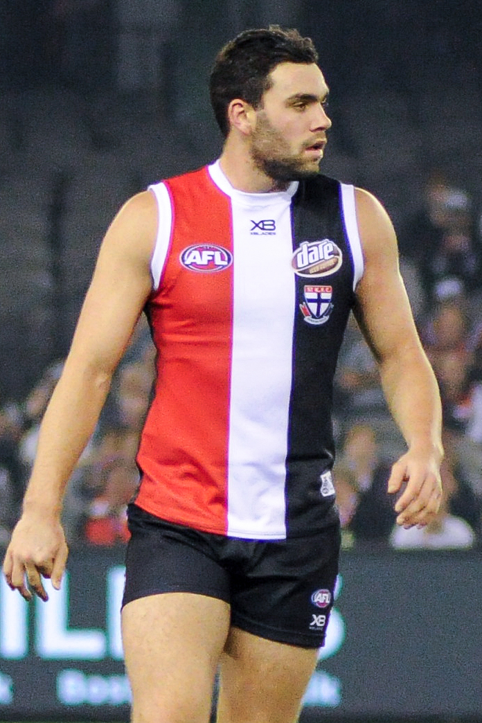 Paddy McCartin during the AFL round five match between St Kilda and Greater Western Sydney on 21 April 2018 at Etihad Stadium in Melbourne, Victoria.